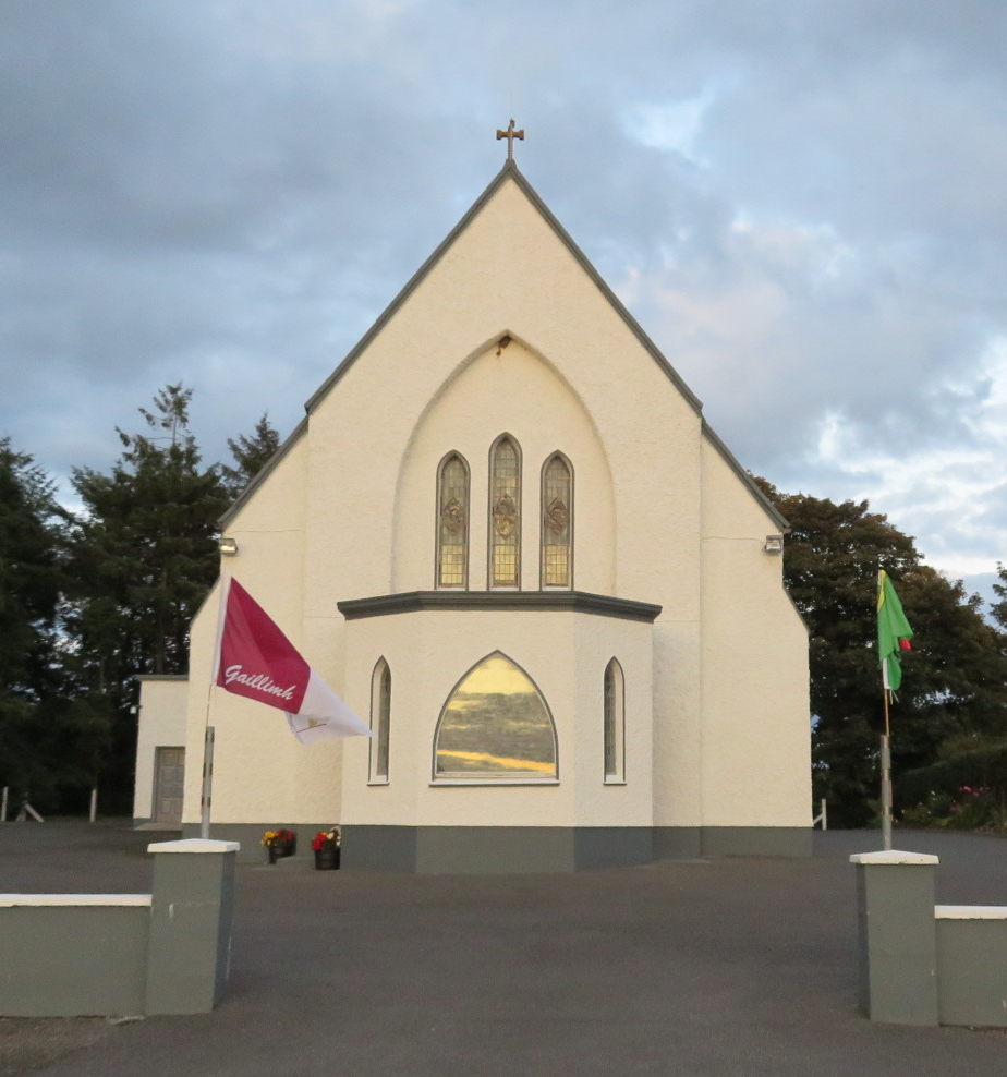 Church of Saint Thérèse of the Little Flower in Brickens, County Mayo, Ireland.